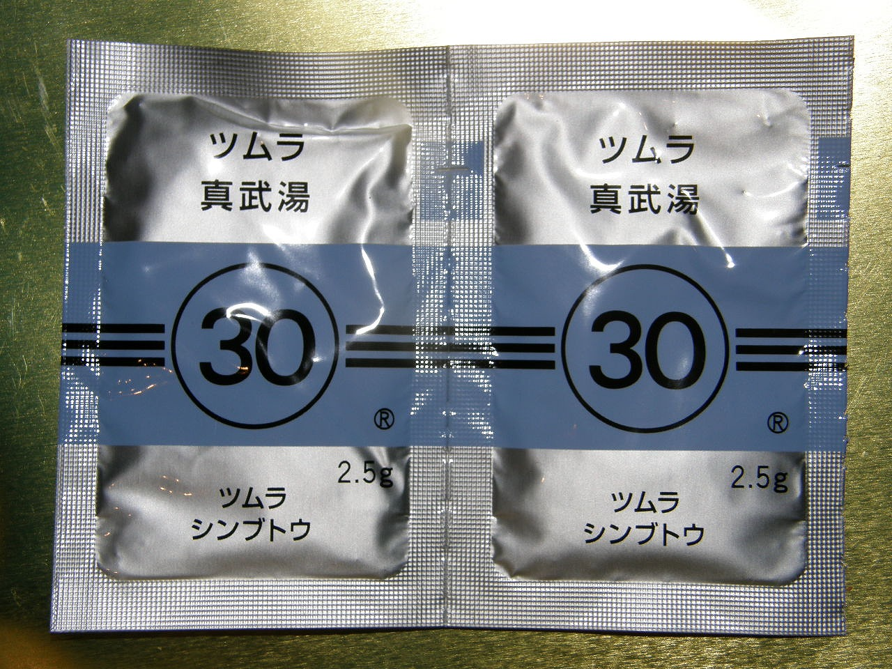 shinbutou-真武湯